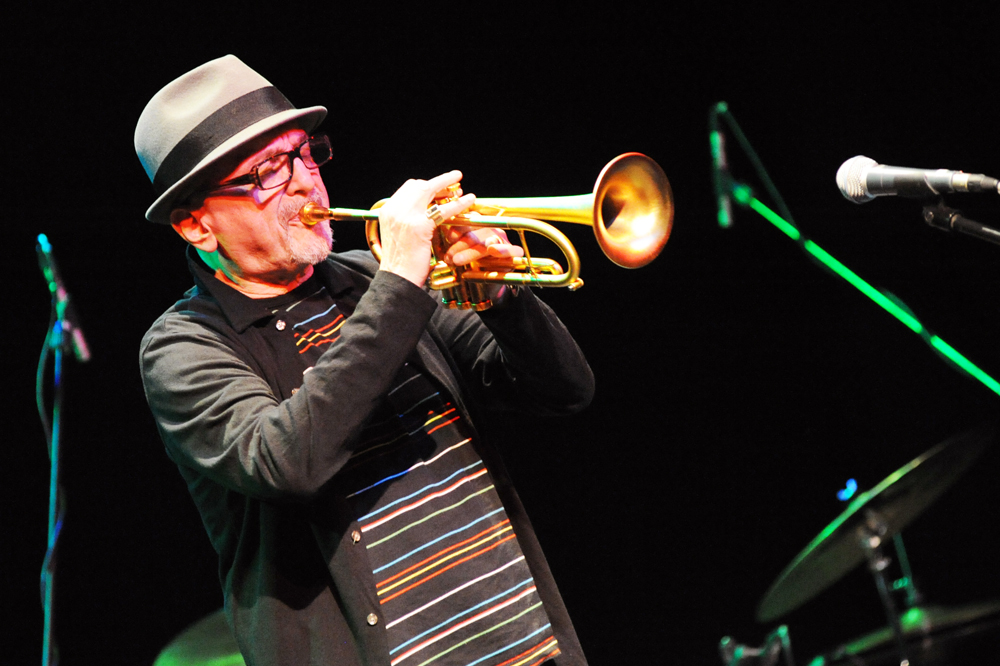 Tomasz Stańko performing at a benefit concert in Warszawa, Poland in November 2010.